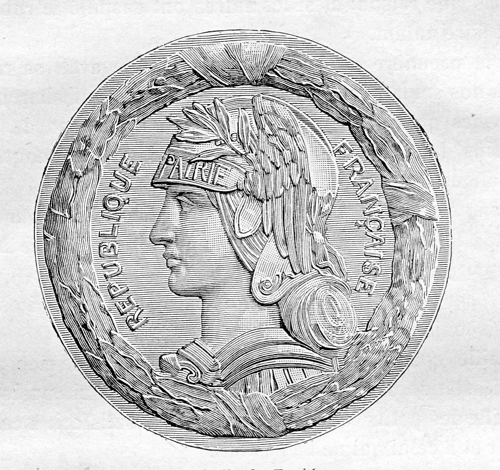 Medal issued for the Tonkin campaign, 1883-86